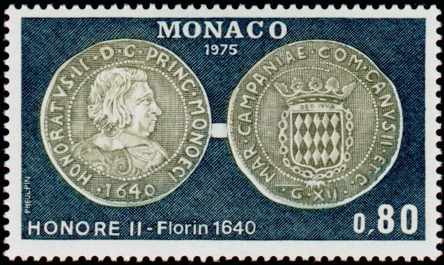 Stamp of a coin of Honore II